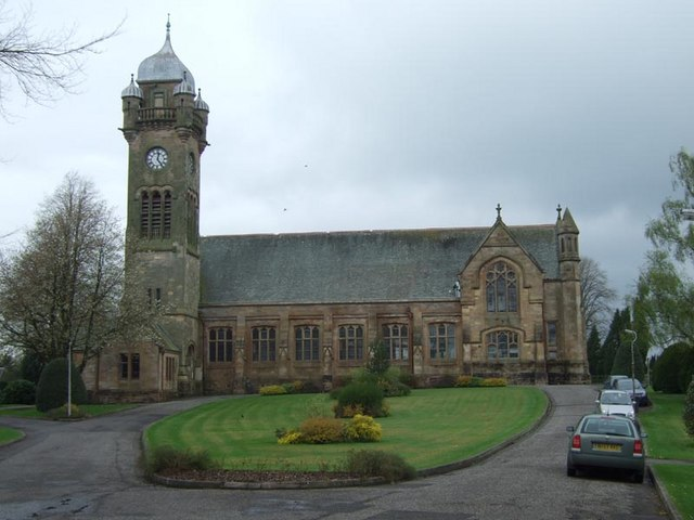 Mount Zion Church, Quarrier's Village, near Kilmacolm, Renfrewshire. Taken from Geograph here by Simon Johnstone